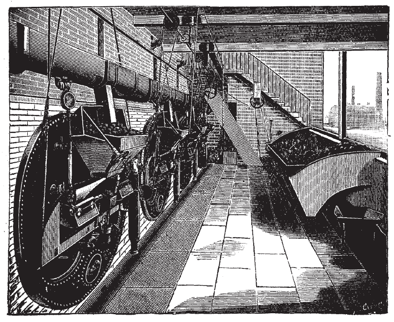 Lancashire boilers with automatic stokers: Images from Marsden 1892 book on Cotton Weaving. *Marsden, Richard (1895) (in english) Cotton Weaving: Its Development, Principles, and Practice, George Bell & Sons, pp. 584 Retrieved on Feb 2009.